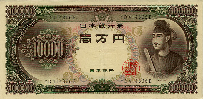 10,000 Yen banknote with Prince Shōtoku, front.